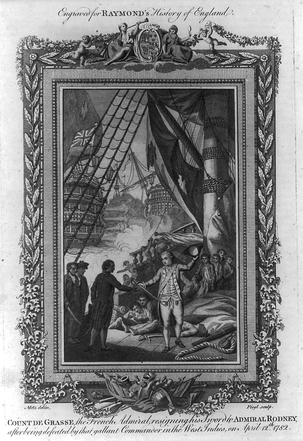 François Joseph Paul de Grasse offering his sword as a token of surrender to George Brydges Rodney, 1st Baron Rodney at the conclusion of the Battle of the Saintes (aka Battle of Dominica). Illus. in: A new, universal and impartial history of England ... to the spring of the year 1784 ... / by George Frederick Raymond, Esq.... London : Printed for J. Cooke, [1785?, p. 595].